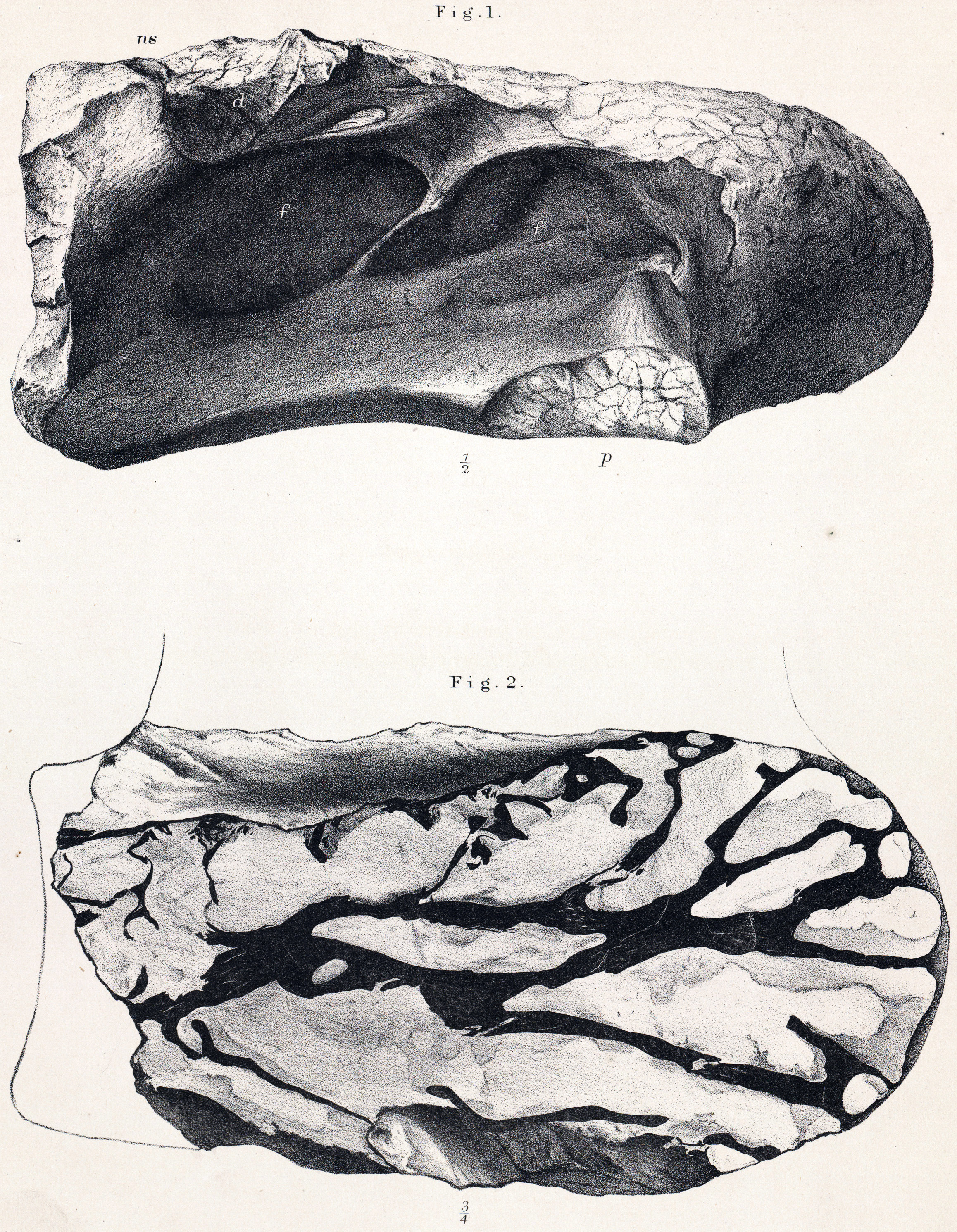 Chondrosteosaurus gigas. Fig. 1. Side view of centrum of an anterior trunk-vertebra: half nat. size. Fig. 2. Vertical longitudinal section of centrum of anterior trunk-vertebra: three fourths nat. size. From the Wealden of the Isle of Wight. In the British Museum.